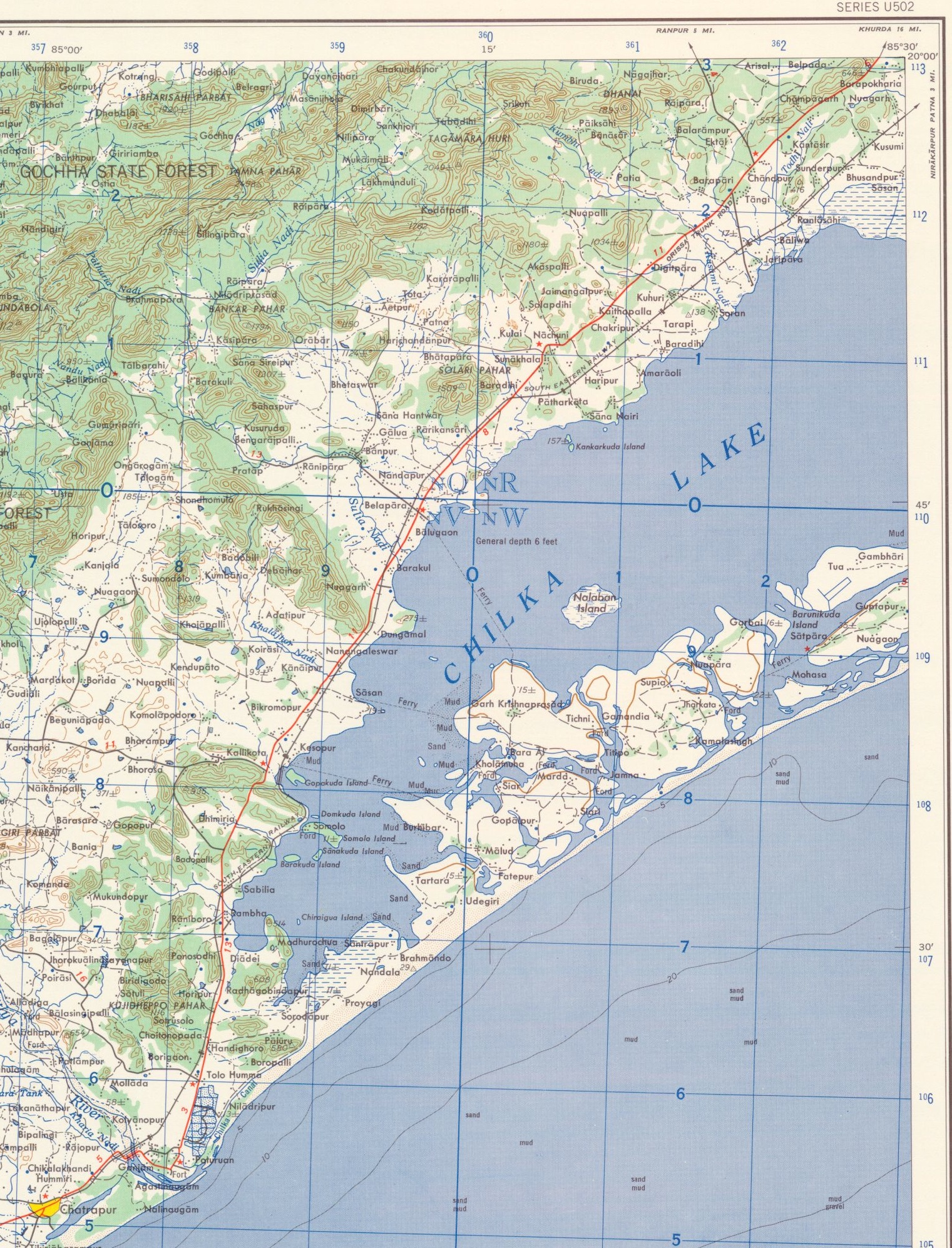 1:250,000 scale topographic map Berhampur India, #ne-45-01 cropped to chow Chilka Lake